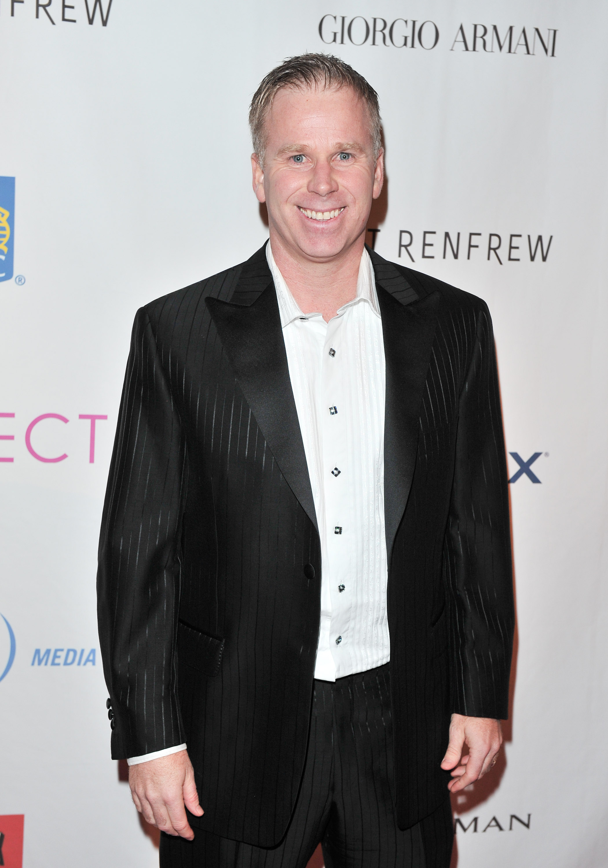 Gerry Dee (Mr. D) at the 18th CFC Annual Gala & Auction. To learn more about the CFC, please visit